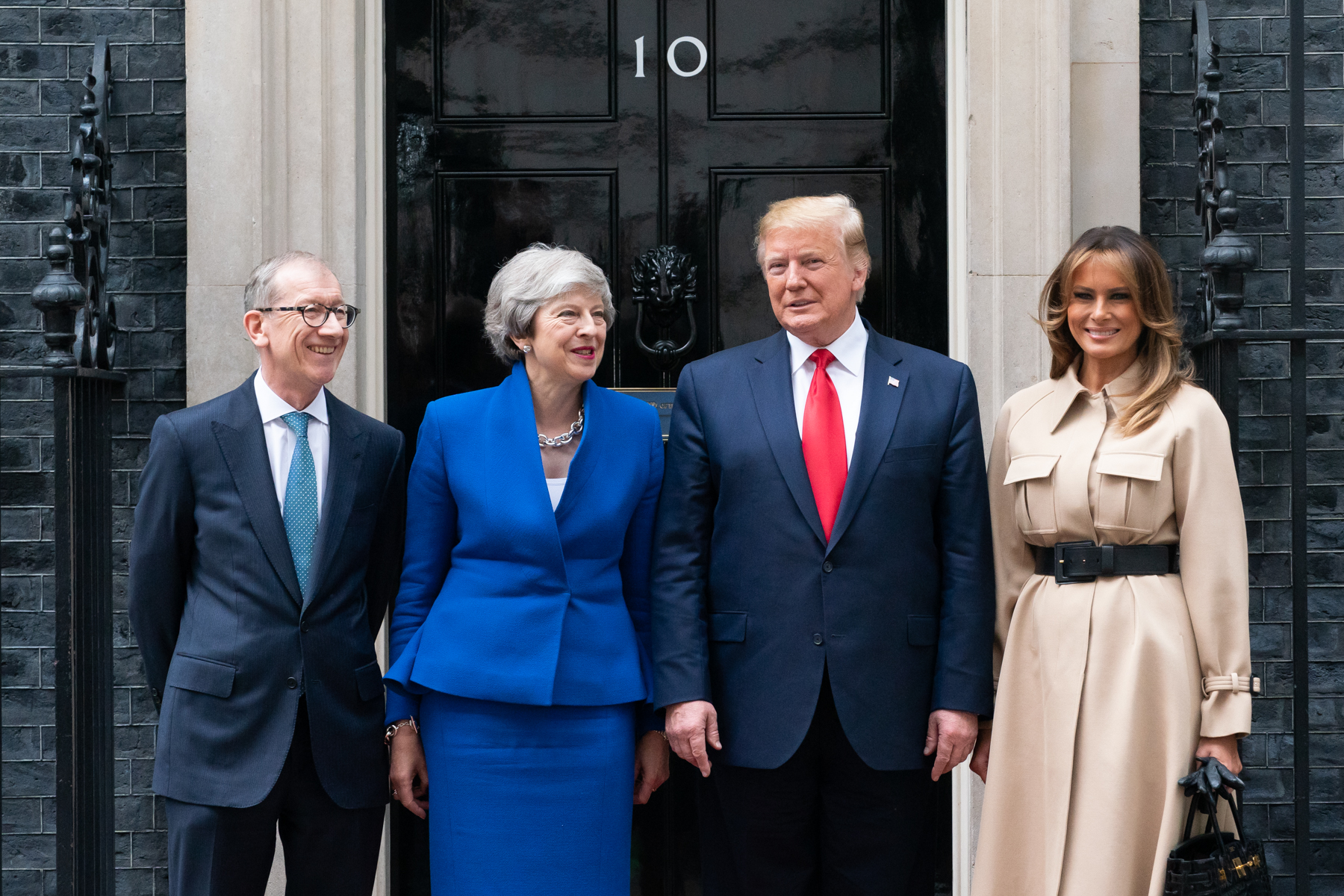 President Donald J. Trump and First Lady Melania Trump pose for a photo with British Prime Minister Theresa May and her husband Mr. Philip May Tuesday, June 4, 2019, at No. 10 Downing Street in London. (Official White House Photo by Andrea Hanks)